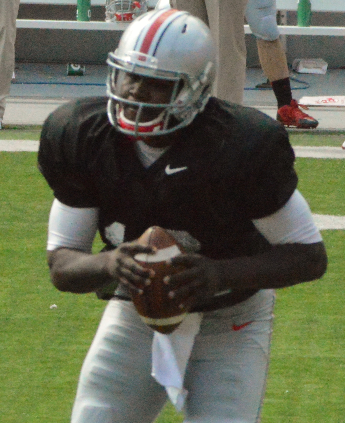 Ohio State quarterback Cardale Jones at the 2014 spring game.